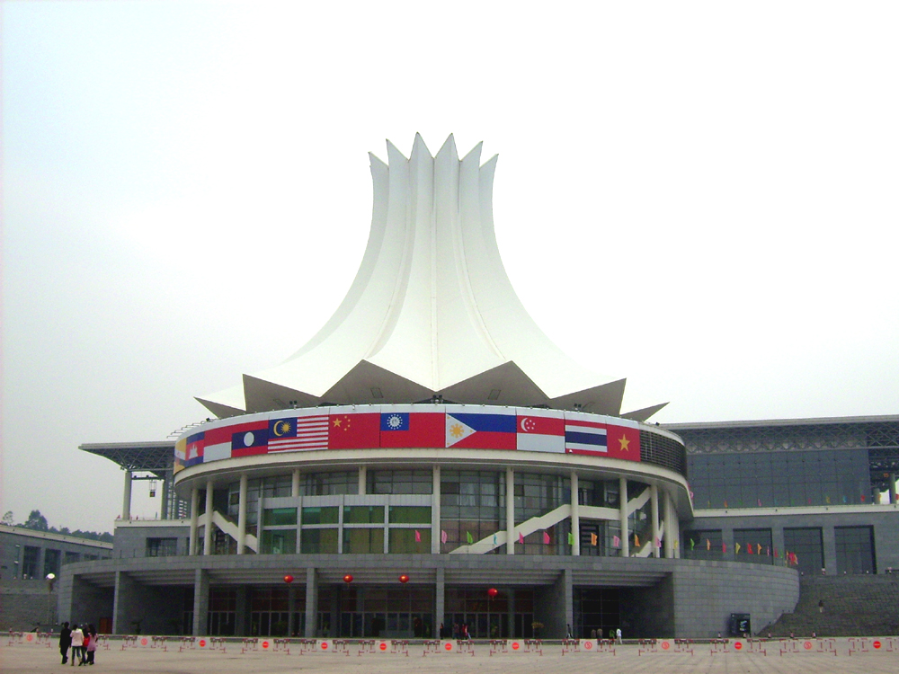 Photo of the Nanning International Convention and Exhibition Center (NICEC) located in eastern Nanning.